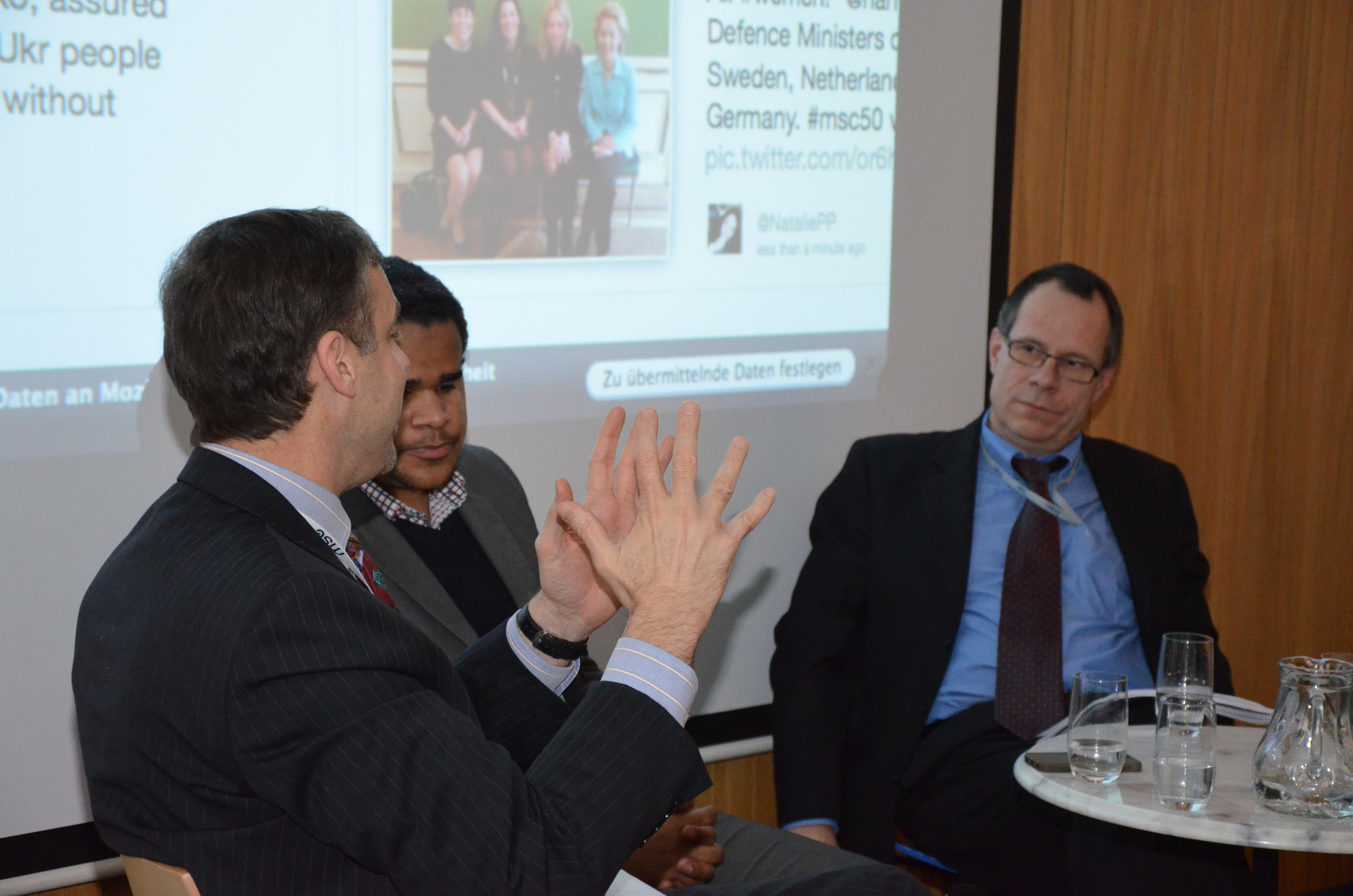 Analysing #MSC50: Consul General Moeller discussed with Thomas Wiegold, Nicki Weber and Günter Schmid the outcomes of the 50th Munich Security Conference.